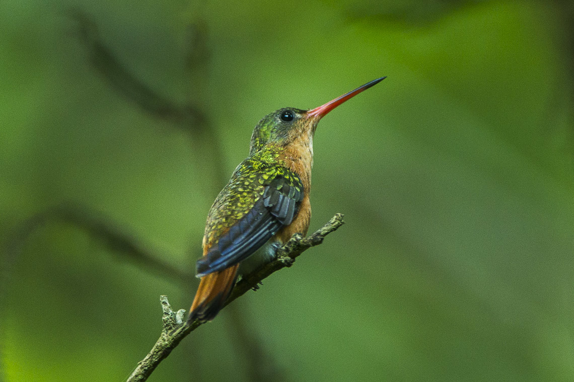 Cinnamon Hummingbird - Mexico_S4E8524